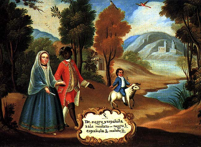 Oil on canvas The legend reads "8. De negro y española sale mulato — negro 1. española 2. mulato 3." — "8. From male Black and female Spaniard, comes a Mulatte offspring — Black 1. Spaniard 2. Mulatte 3."